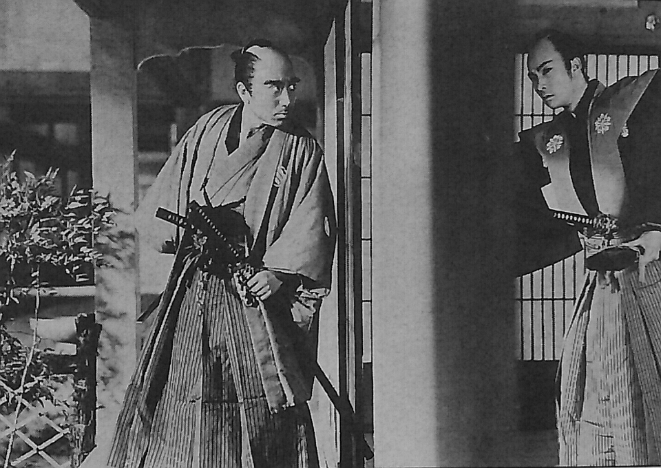 Chiezō Kataoka (role: Akanishi Kakita) and Kensaku Hara in Akanishi Kakita (1936) directed by Mansaku Itami